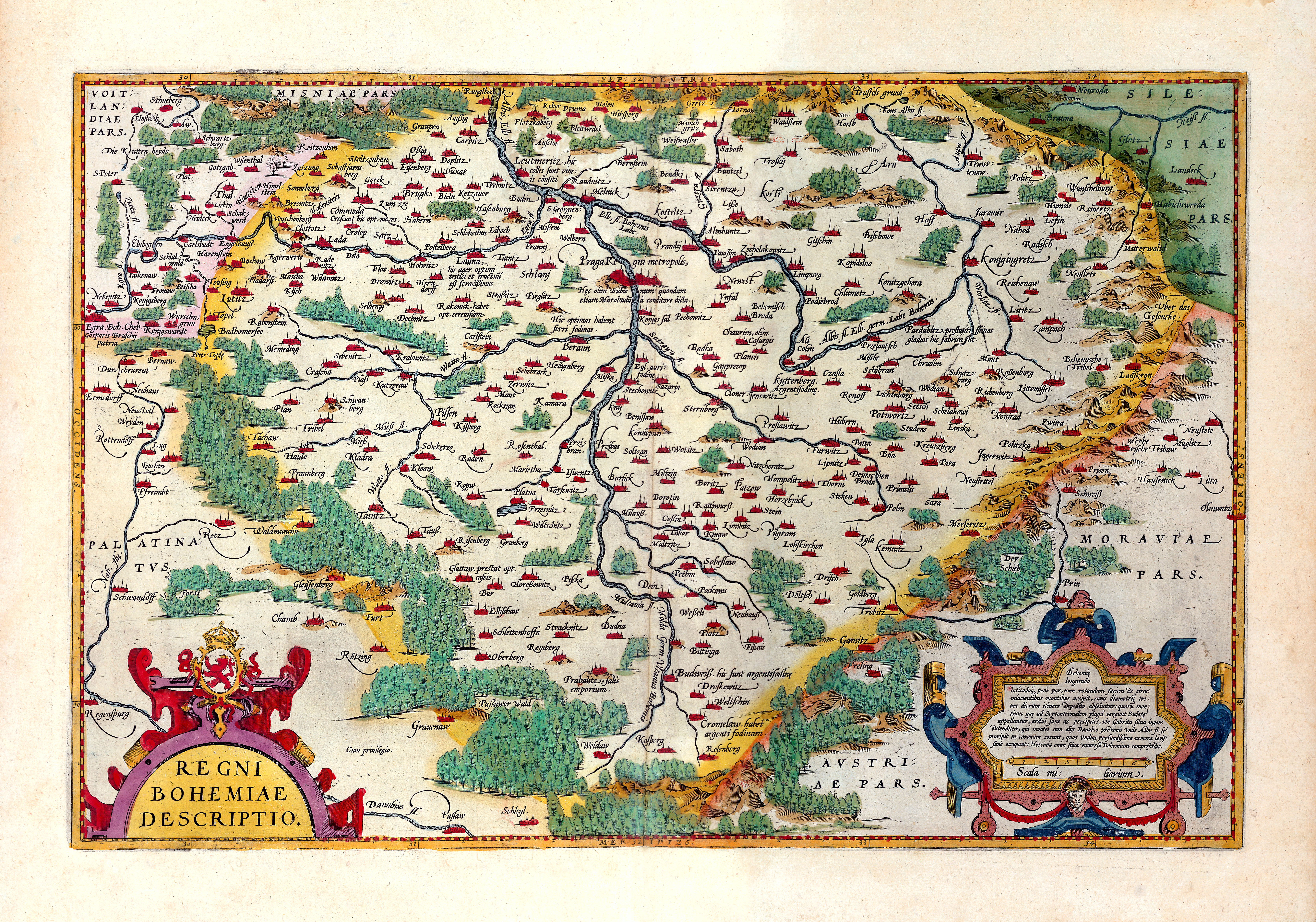 Map of Bohemia from an unknown author dated 1590 (reedition 1609), own scan & adjustment, high resolution (ca 56 × 39 cm)